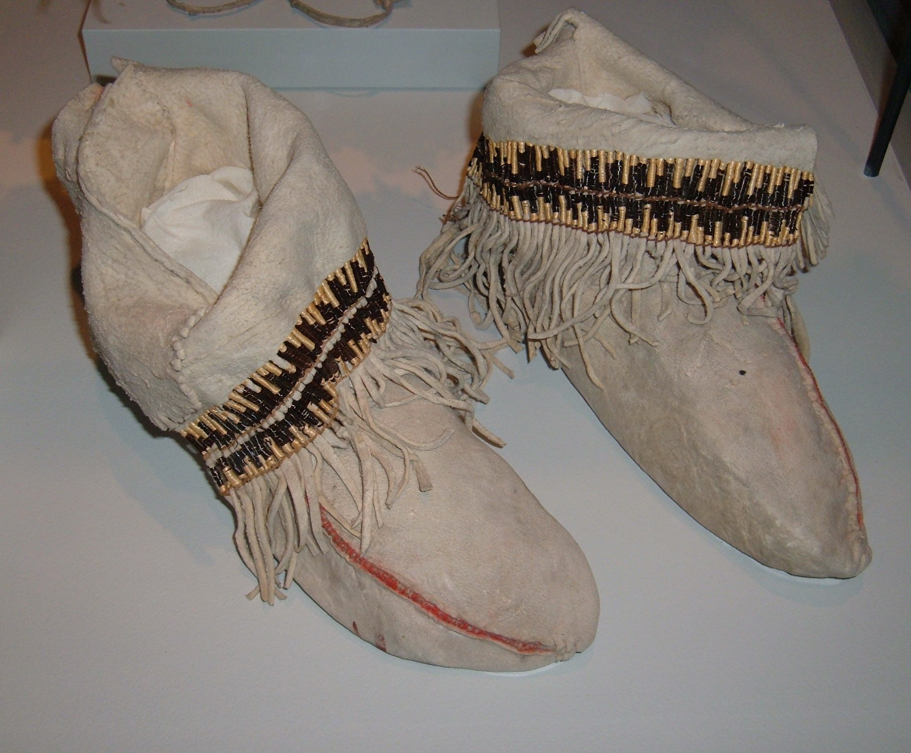 Hupa moccasins (late 1800s) made of leather and grasses on display at the Iris & B. Gerald Cantor Center for Visual Arts on the Stanford University campus in Stanford, California.